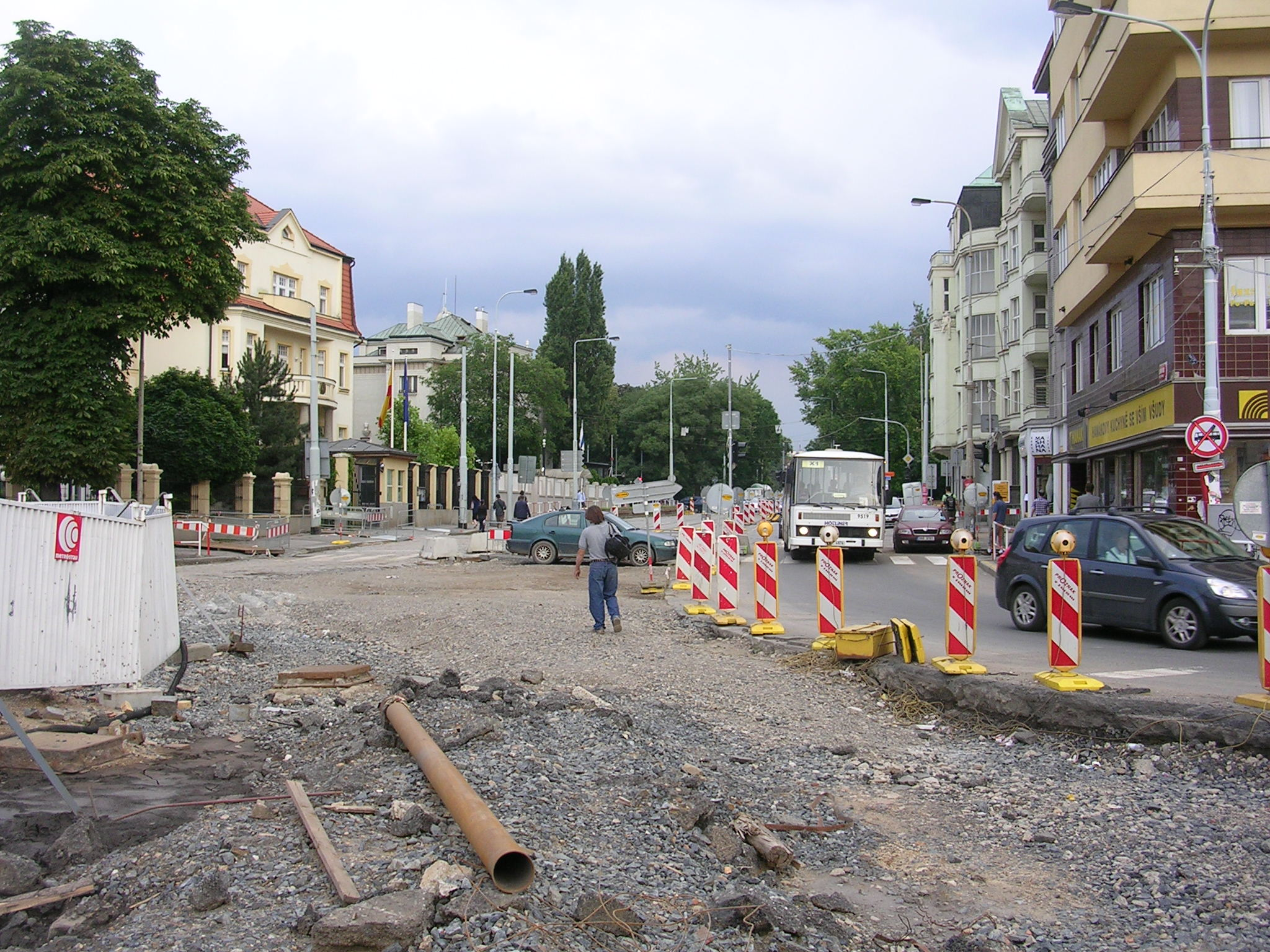 Holešovice and Hradčany, Prague, the Czech Republic. During the construction of Blanka Tunnel. - Google Maps - Google Earth